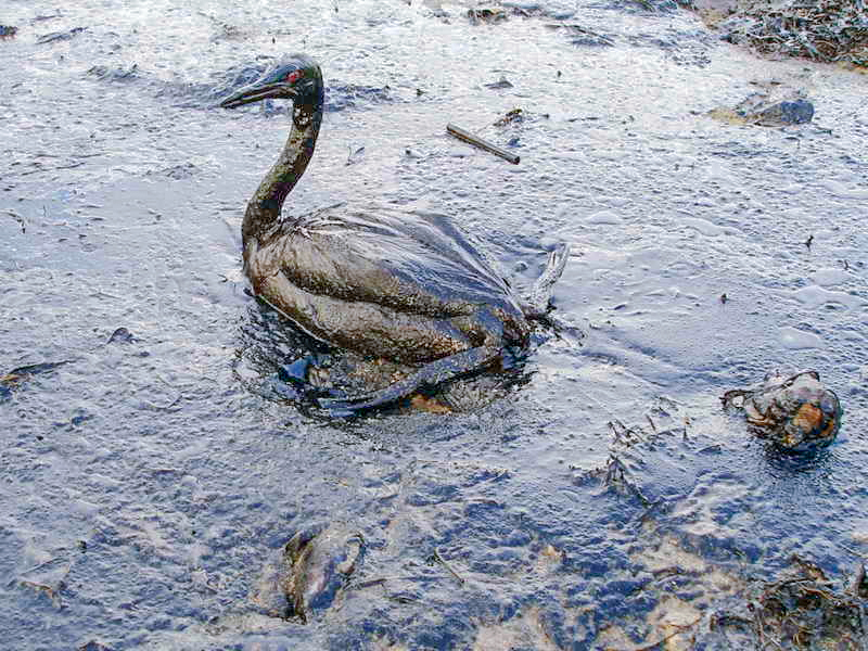 Oiled Bird - Black Sea Oil Spill